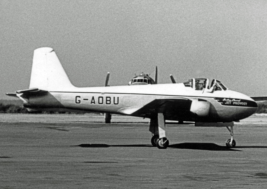 Hunting Percival Jet Provost T.1 G-AOBU at Blackbushe Airport in 1955